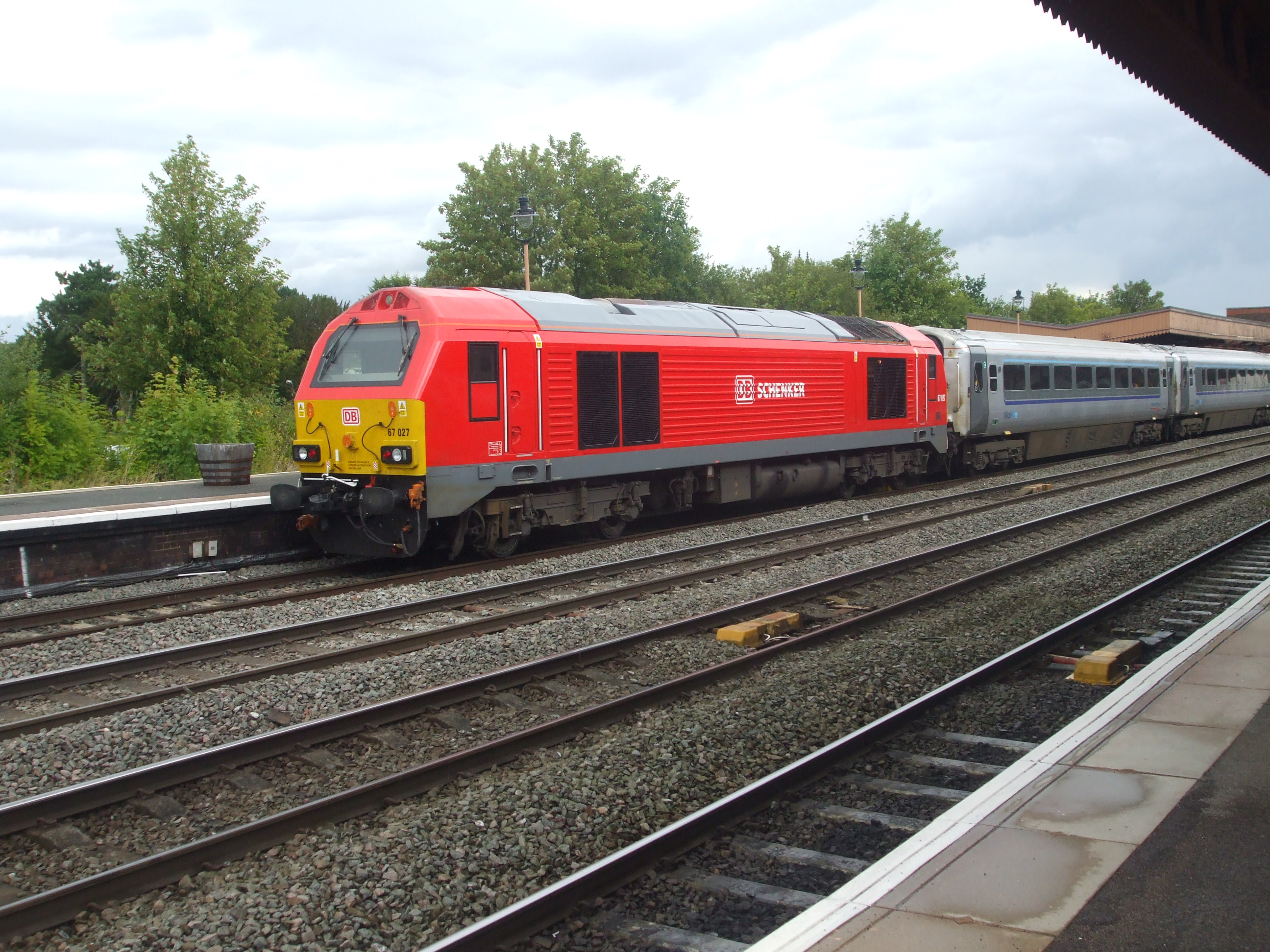 Class 67 locomotive 67027 seen at Leamington Spa in DB Schenker livery at the rear of a Chiltern Railways service to London Marylebone